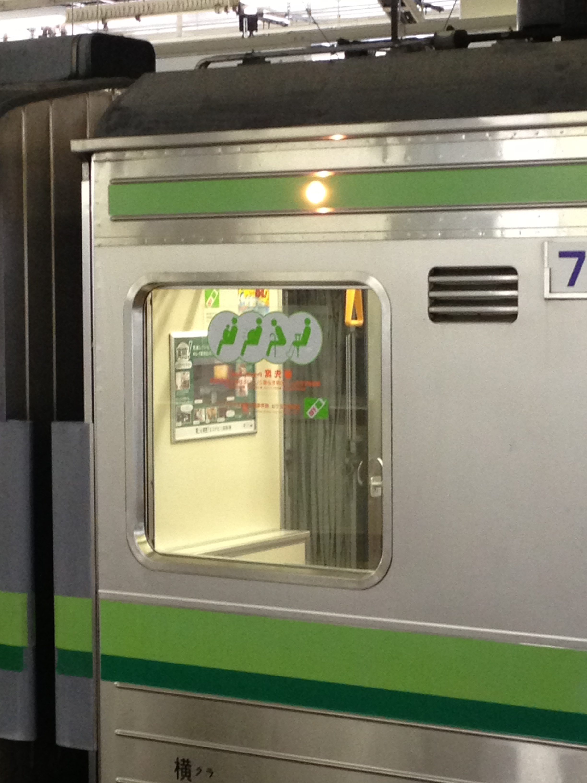 An indicator lamp on a JR East NDMC 204 to indicate failures in the motor generator